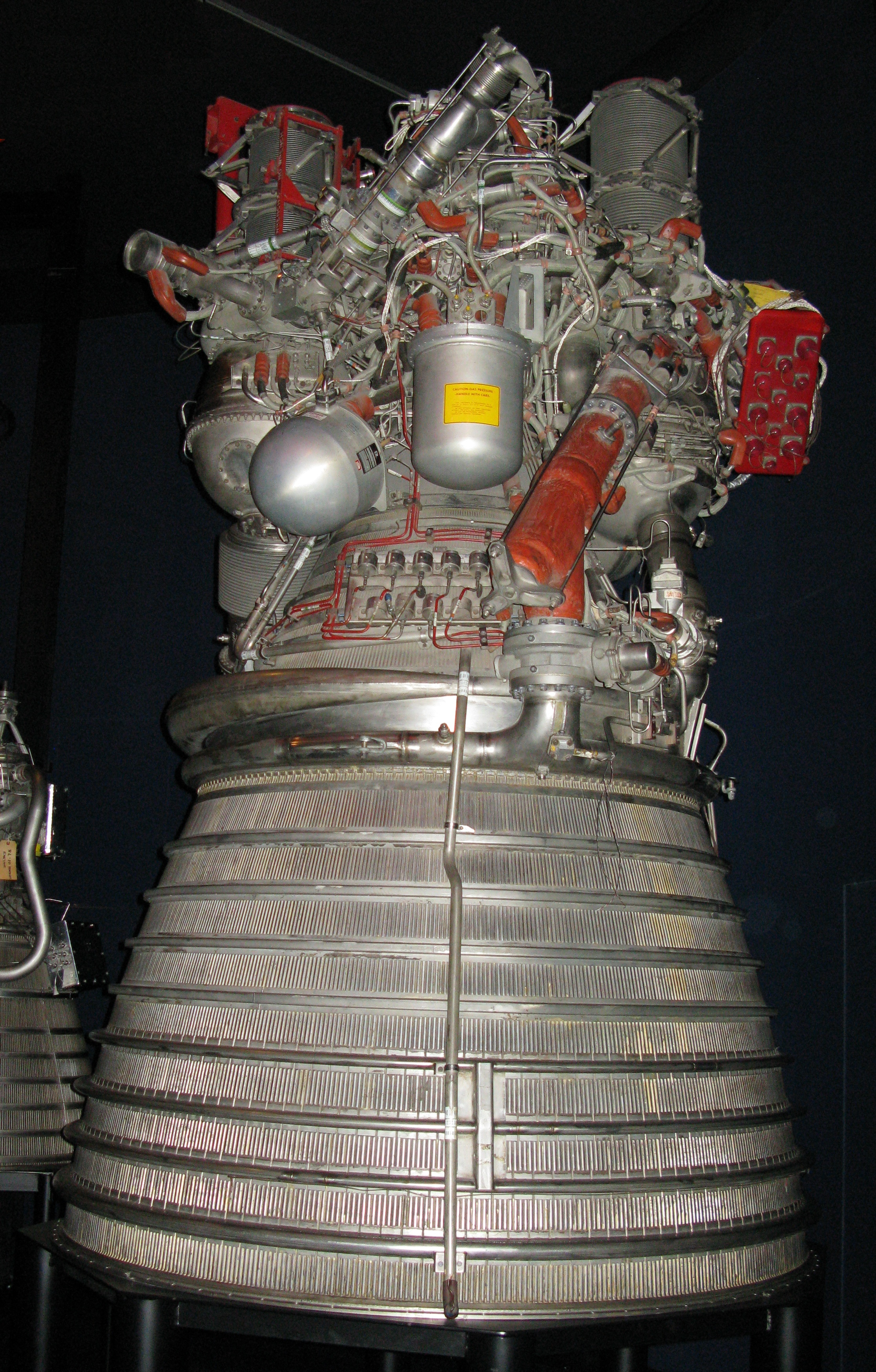 photo of a Rocketdyne J-2 rocket engine, from Saturn V 2nd and 3rd stages, in the Science Museum (London)